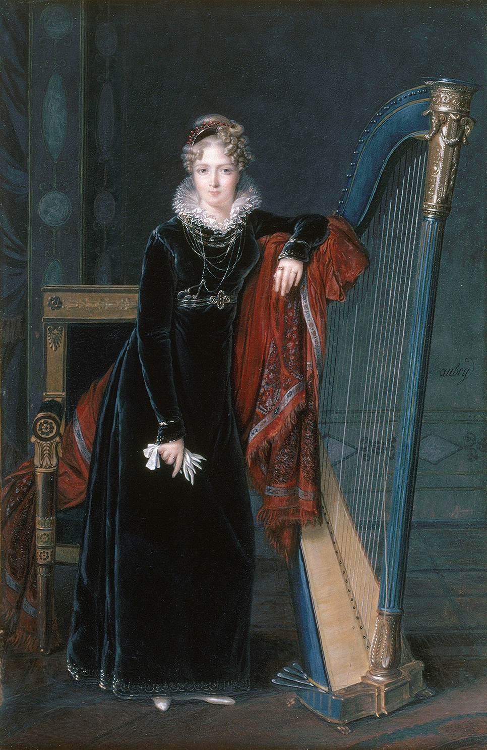 Portrait en pied d'une jeune femme blonde, en robe de velours noir